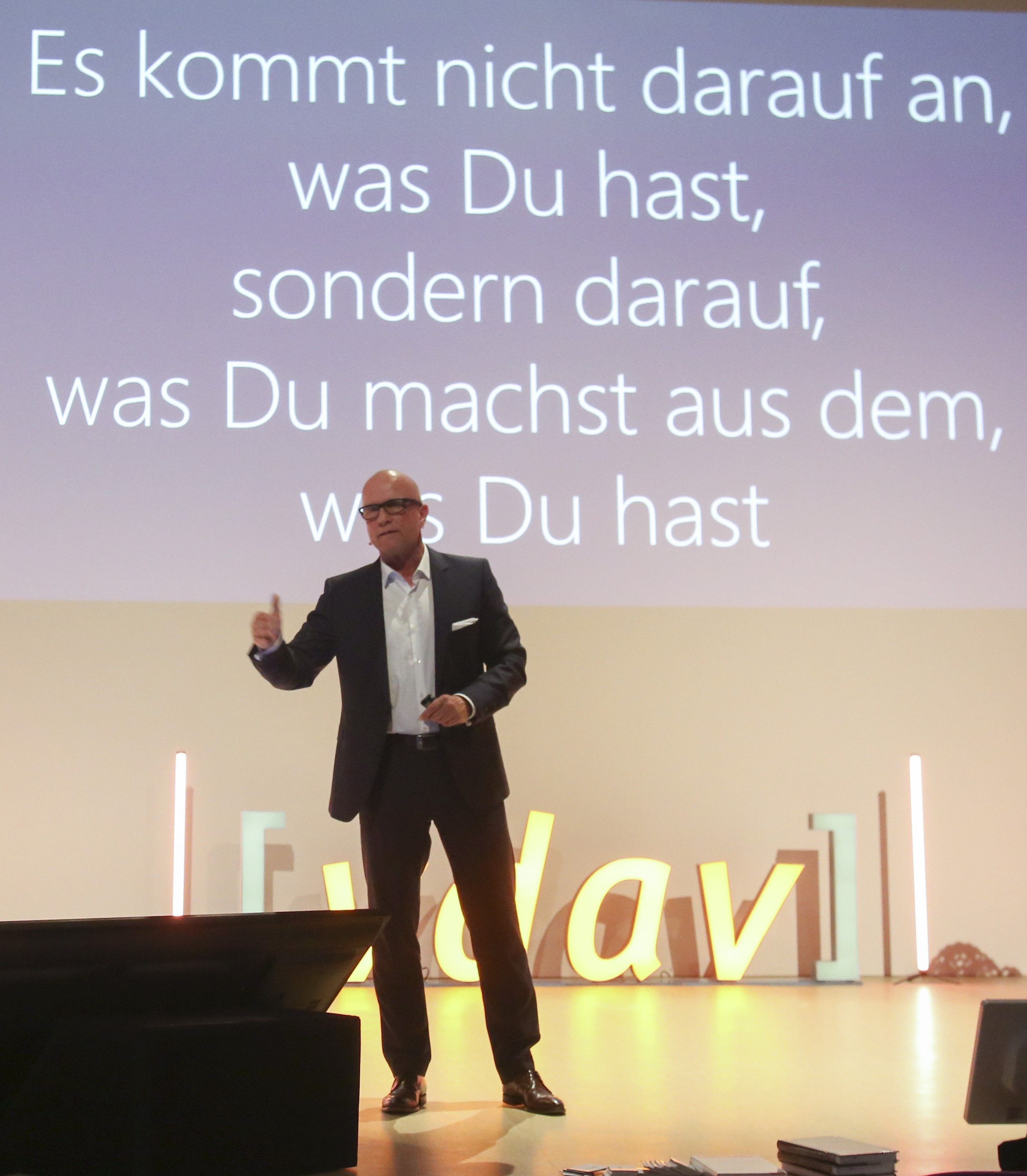 Andreas Buhr 2018